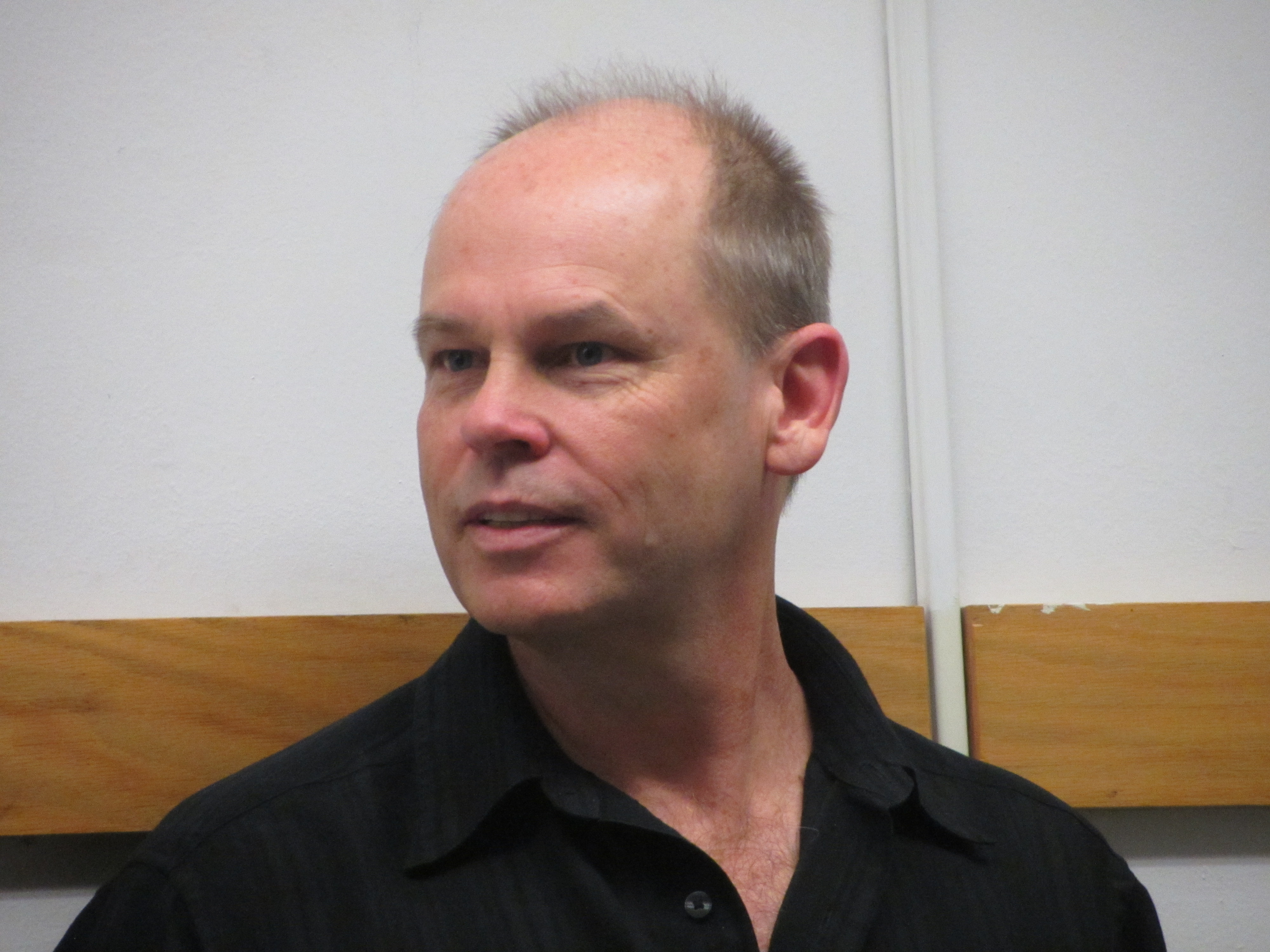 Norwegian American planetary scientist Erik Ian Asphaug.